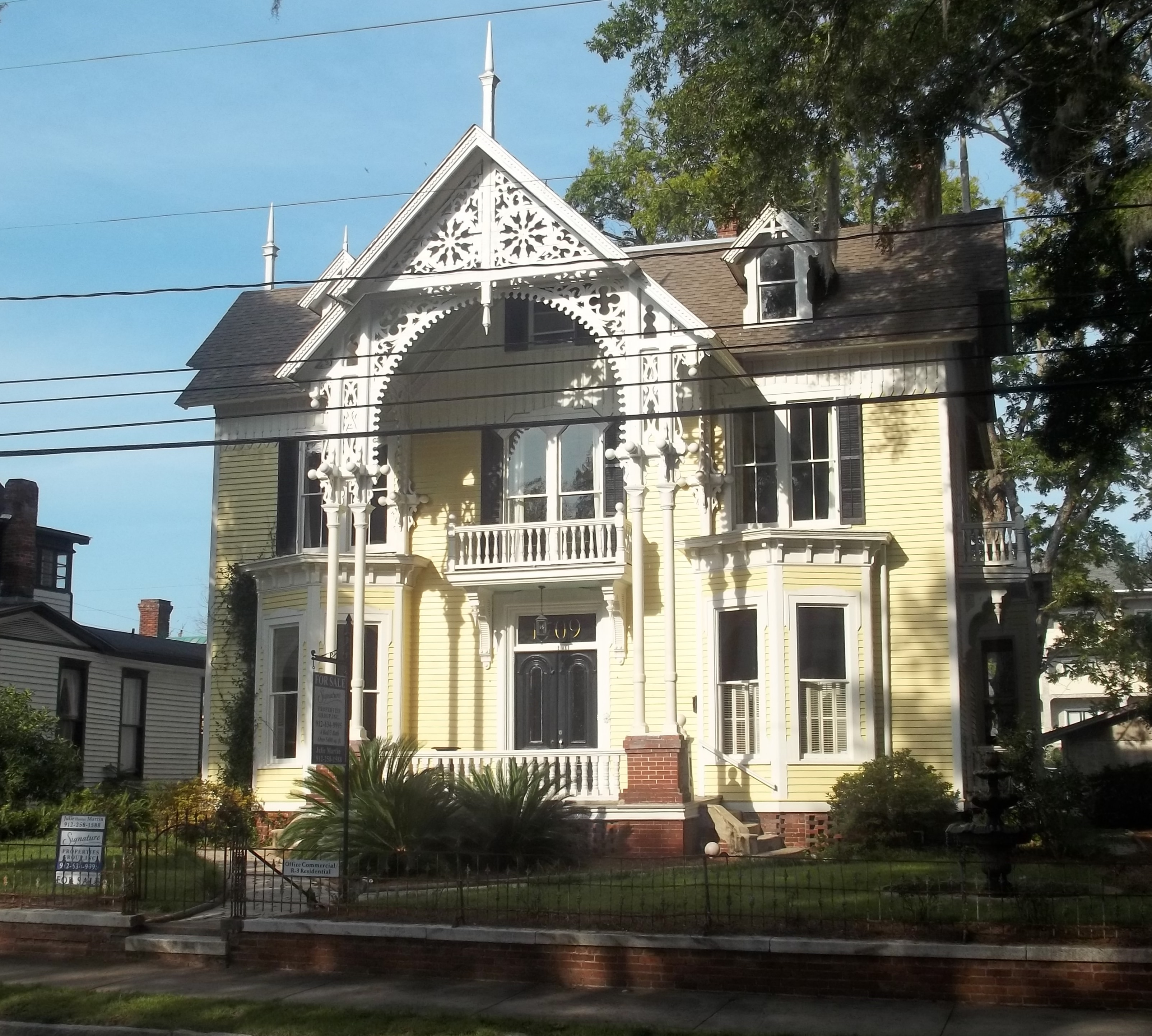 Brunswick, Georgia: Brunswick Old Town Historic District: Mahoney-McGarvey House, built in 1891